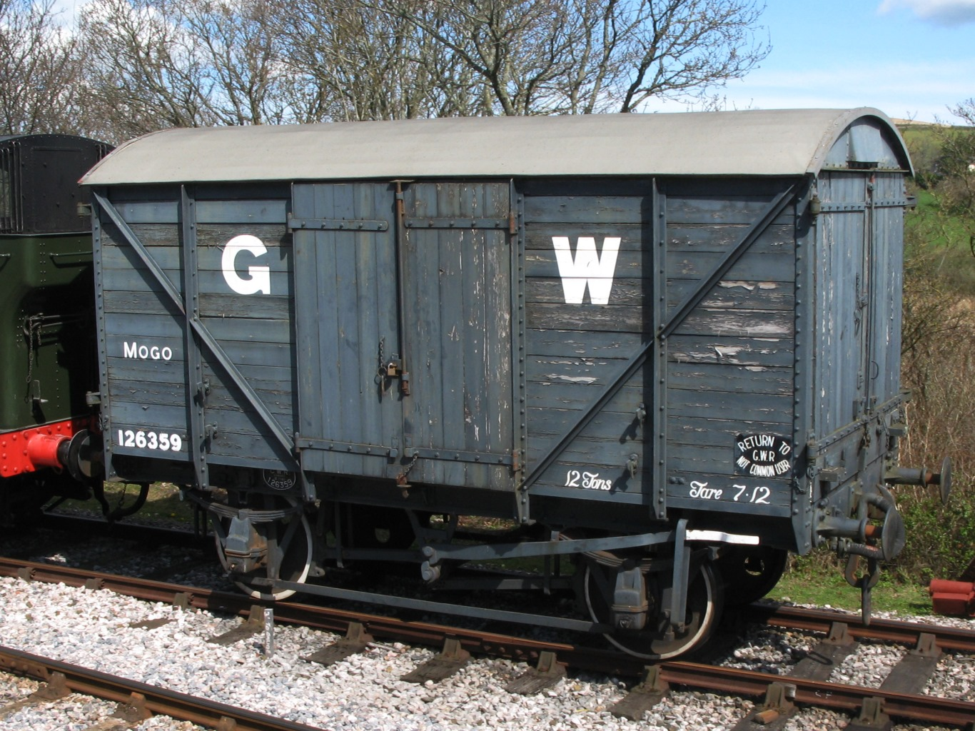 A former Great Western Railway "Mogo" van, designed for either motor cars or general goods traffic. Diagram G31, running number 126359. Photographed at Totnes on the South Devon Railway, England.